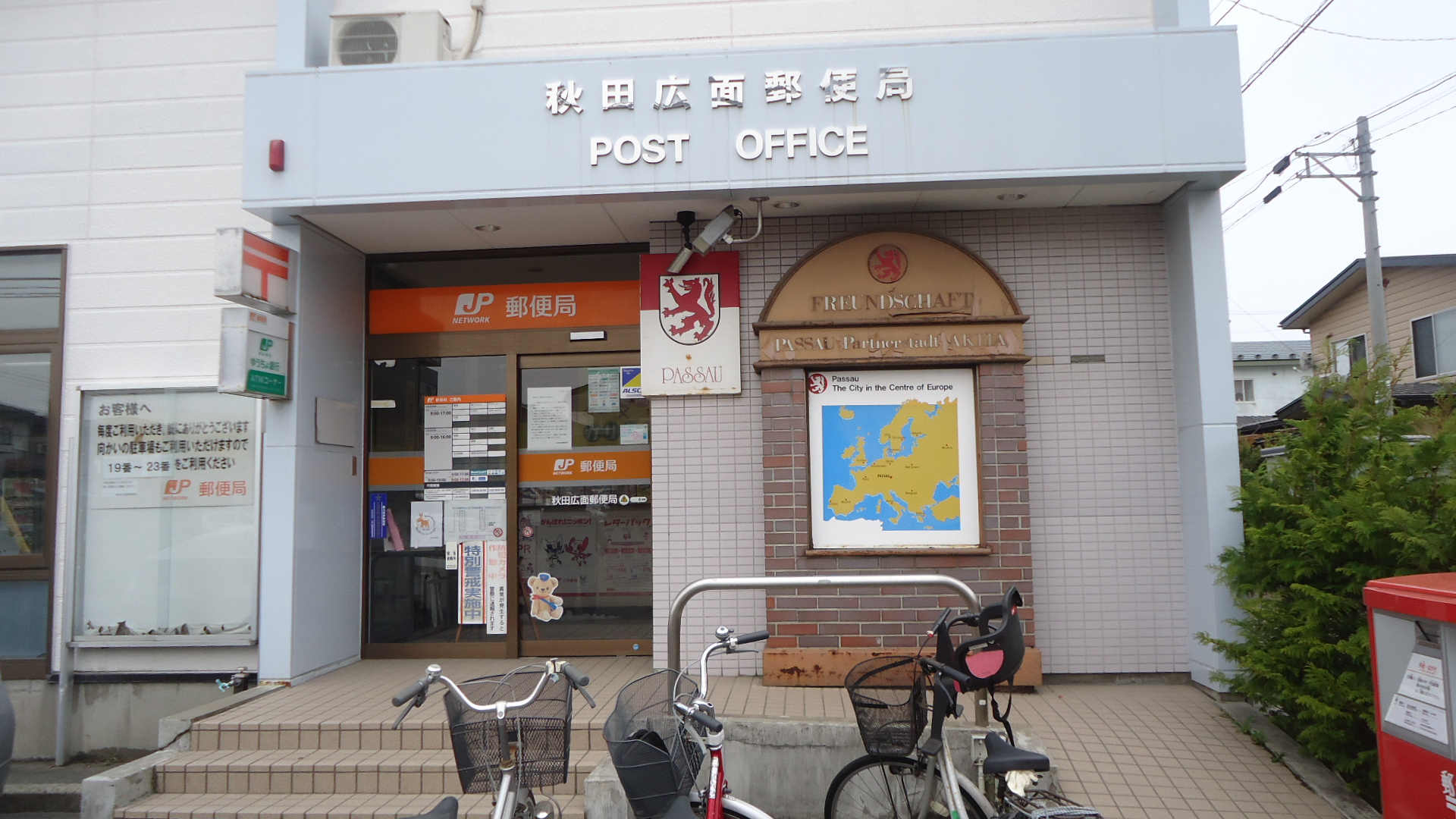 Hiroomote Post Office